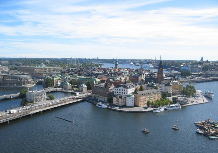 view on Stockholm gamla stan and surroundings